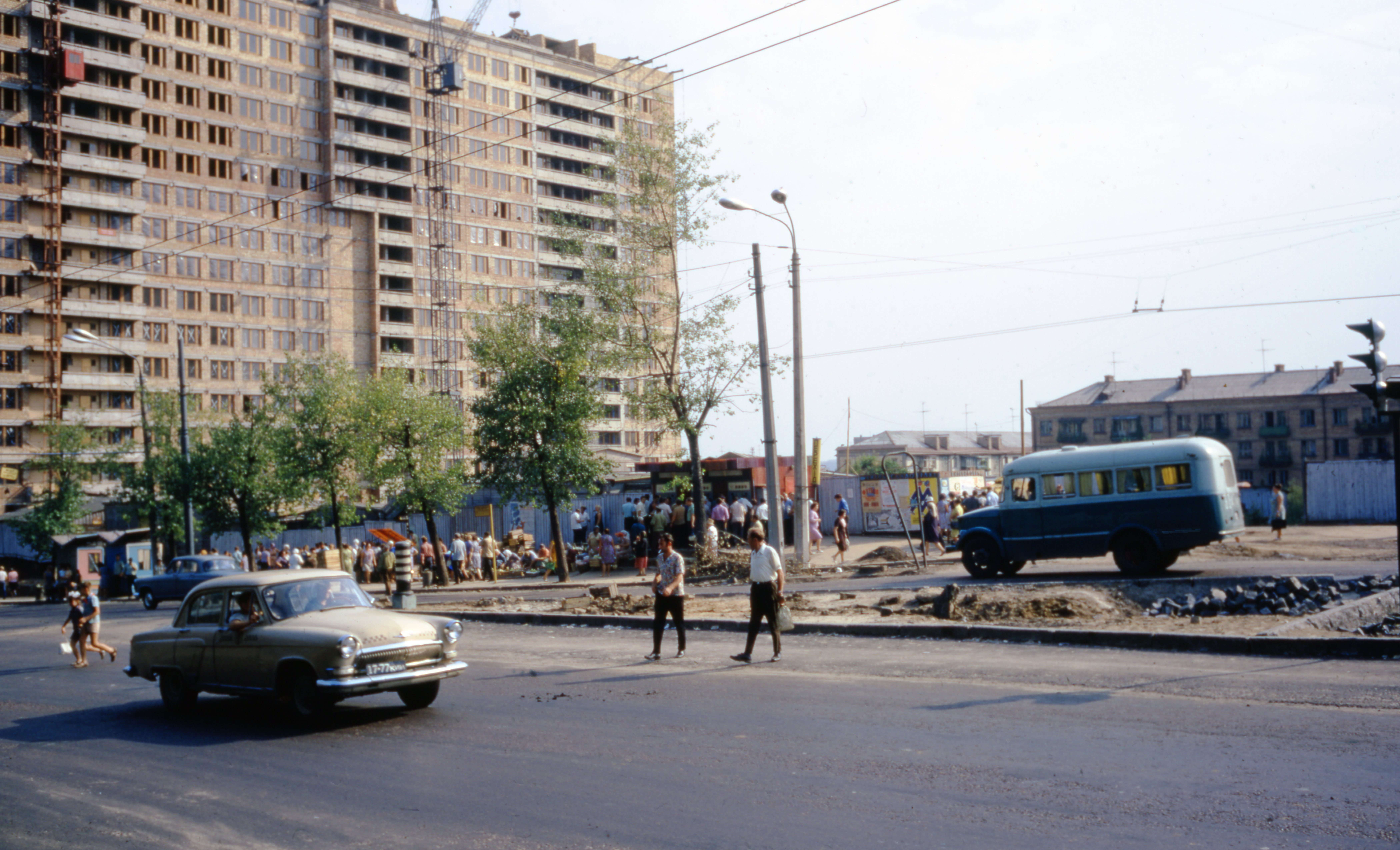 These photos were taken by Thomas T. Hammond during his trip to the Soviet Union, specifically Kiev, Ukraine. This specific image features a street view of a construction zone.